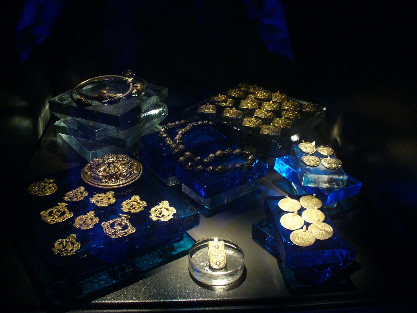 Stockholm, Historical Museum